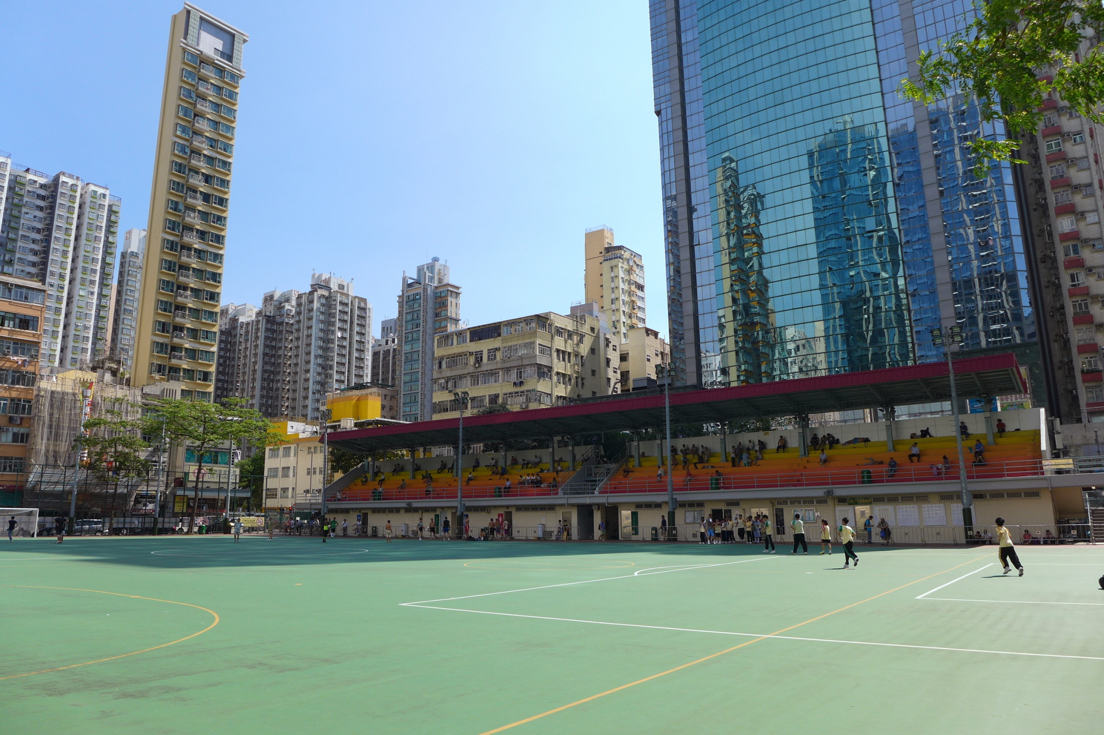 Macpherson Playground